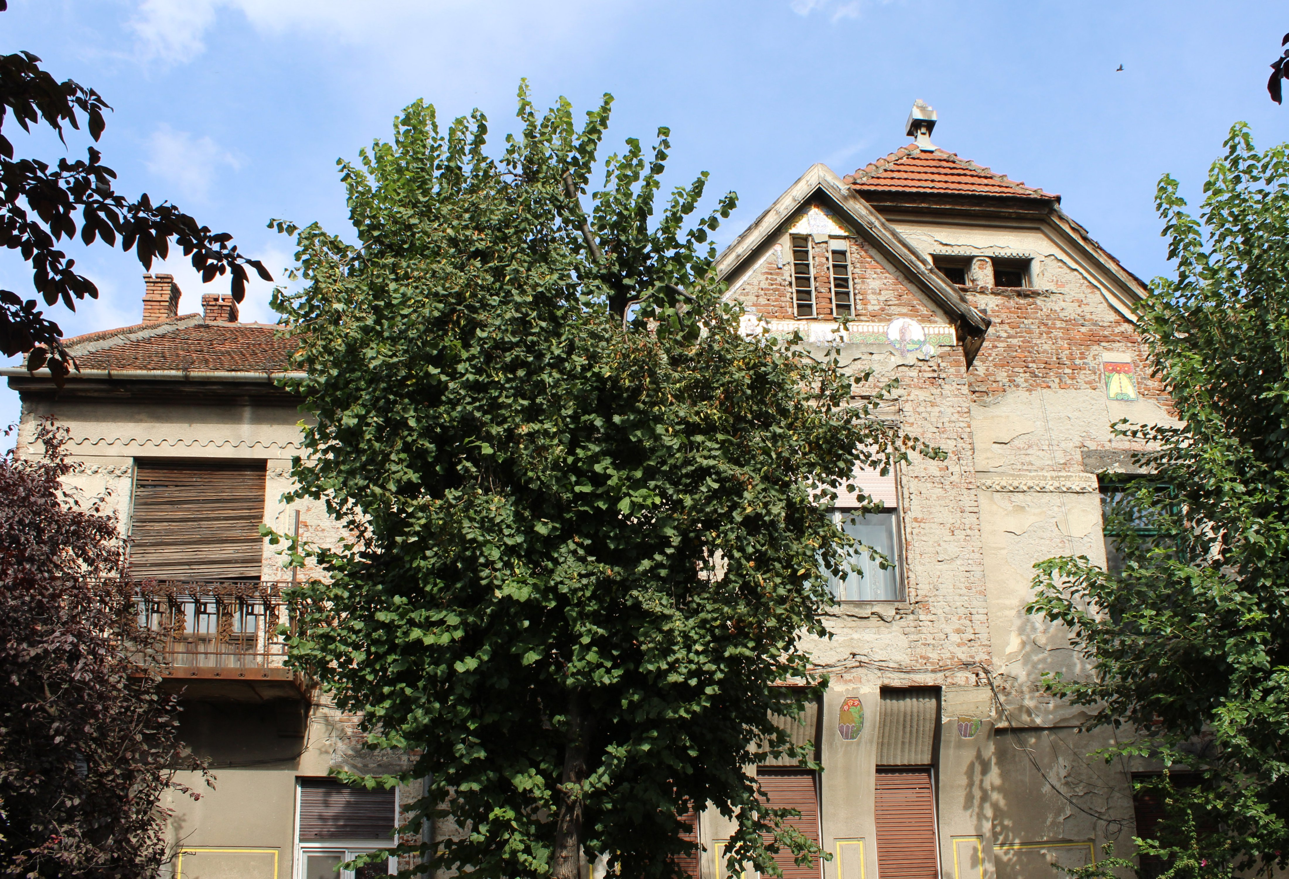 Villa Ödön Nachtnébel, Arad, Romania.